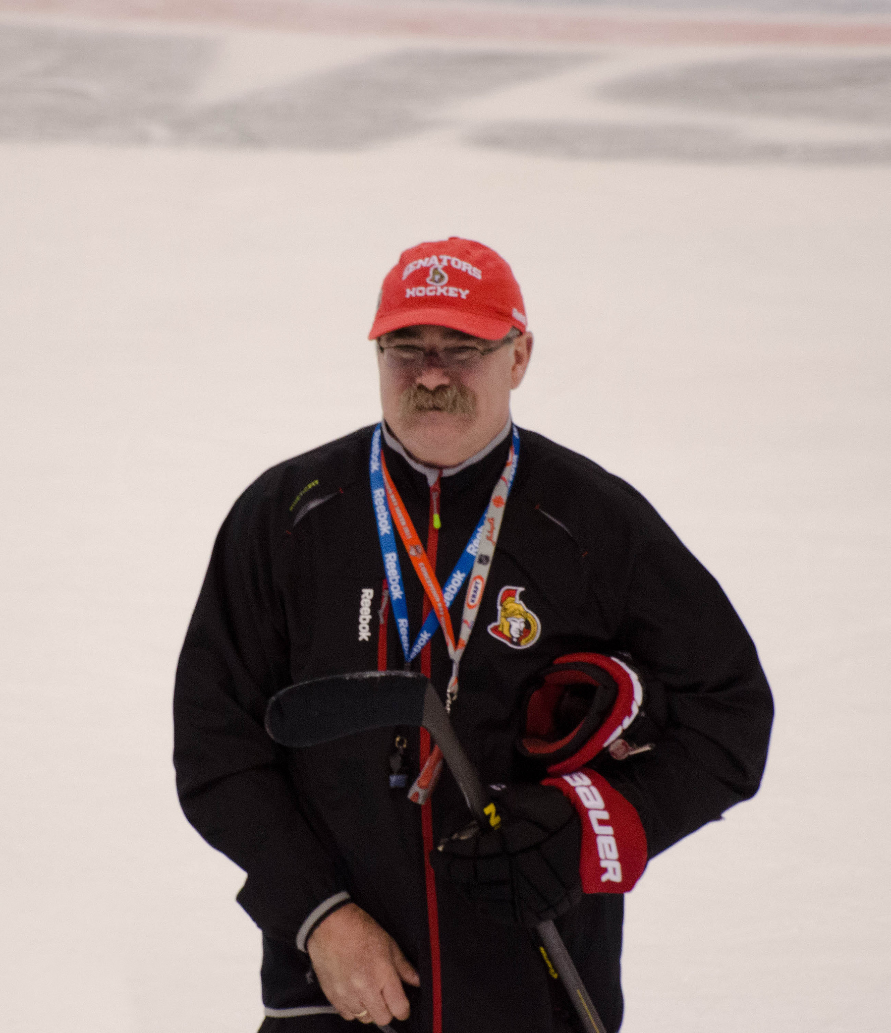 Coach Paul MacLean of Ottawa